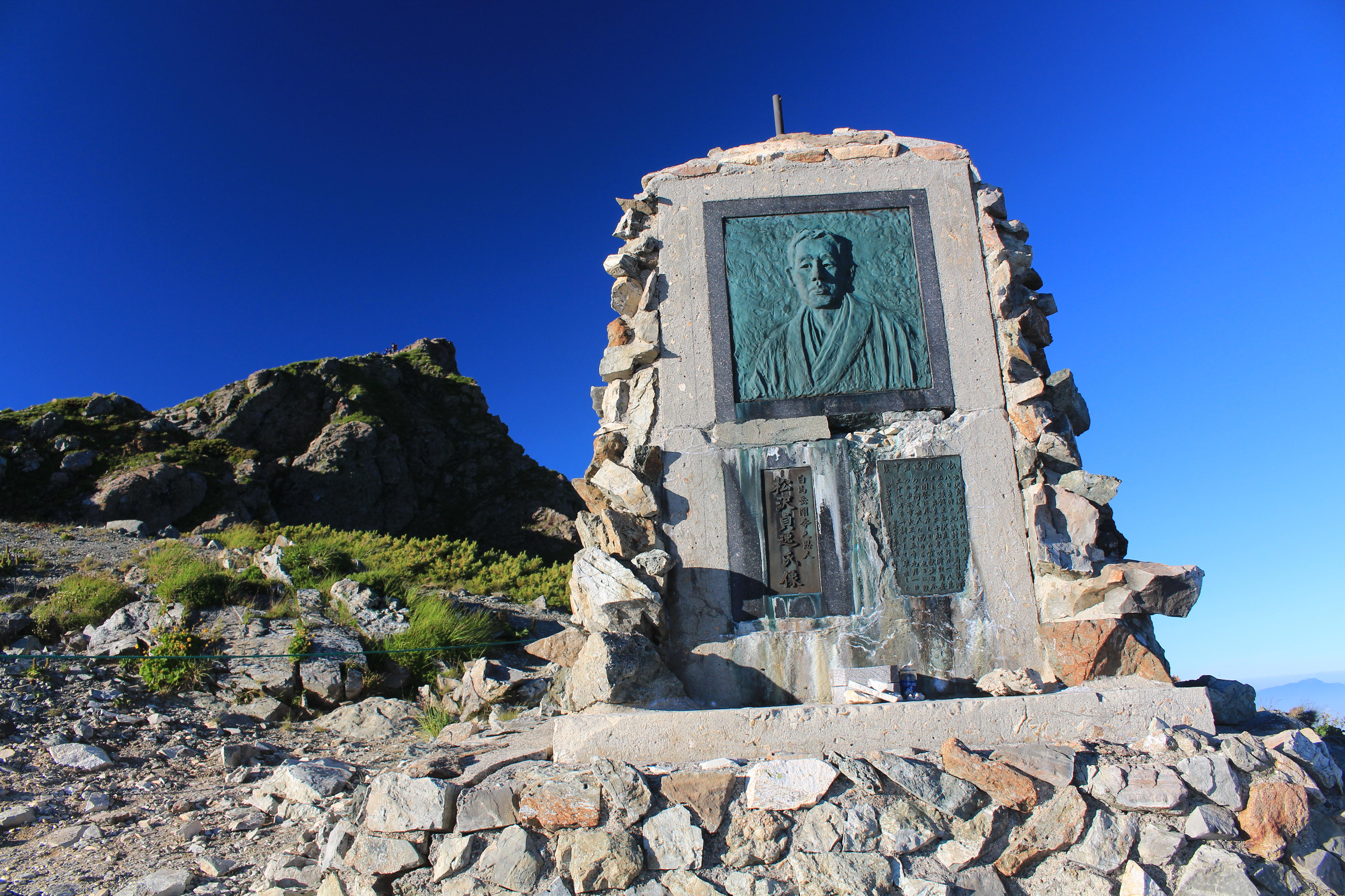 Rrelief of Teiitsu Matsuzawa in Mount Shirouma, Hakuba, Nagano prefecture, Japan.